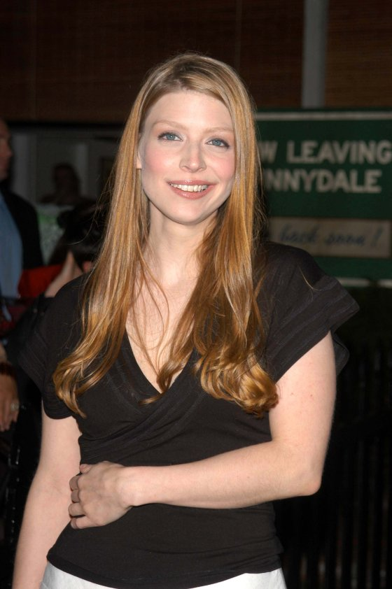 Actress Amber Benson at Buffy the Vampire Slayer wrap party.